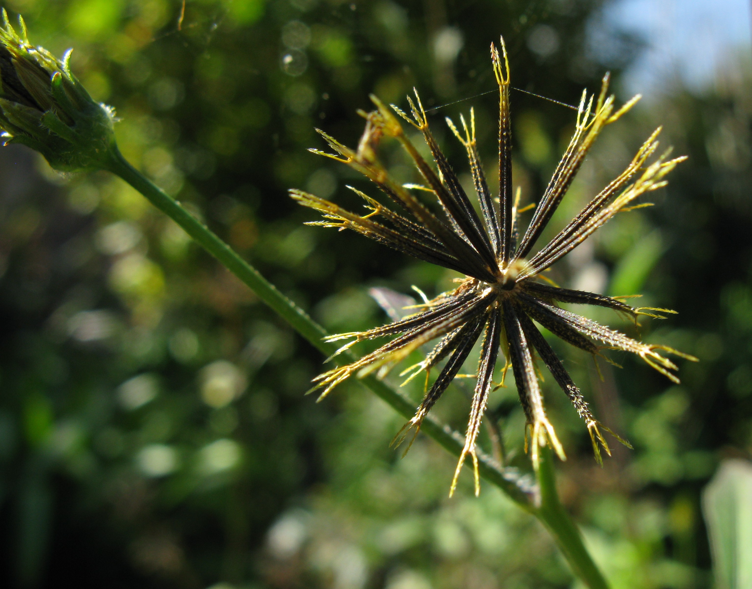 Bidens Pilosa, Detail of ripening infructescence